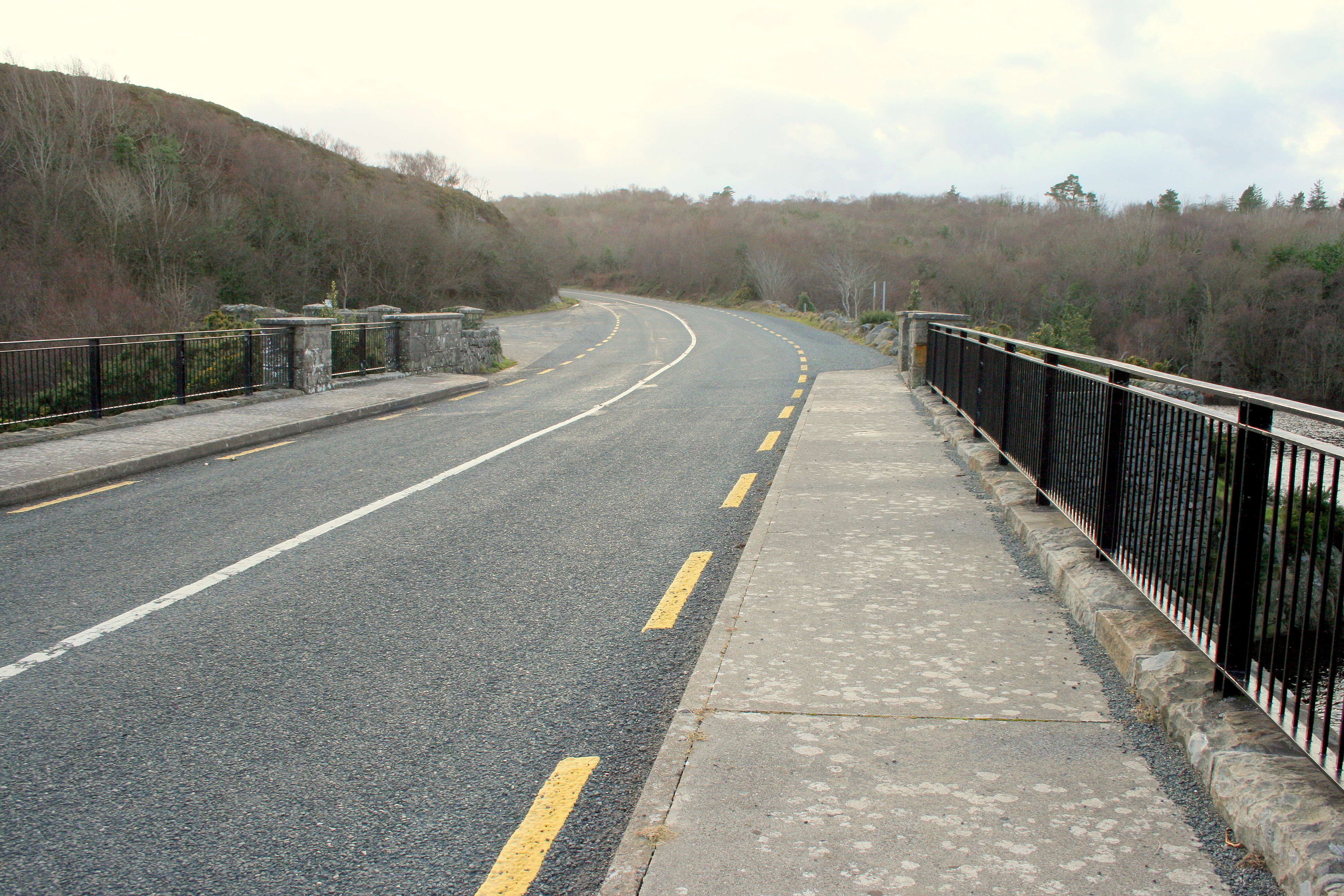 The R310 road at Pontoon crossing the Lough Conn/Lough Cullin strait in County Mayo.